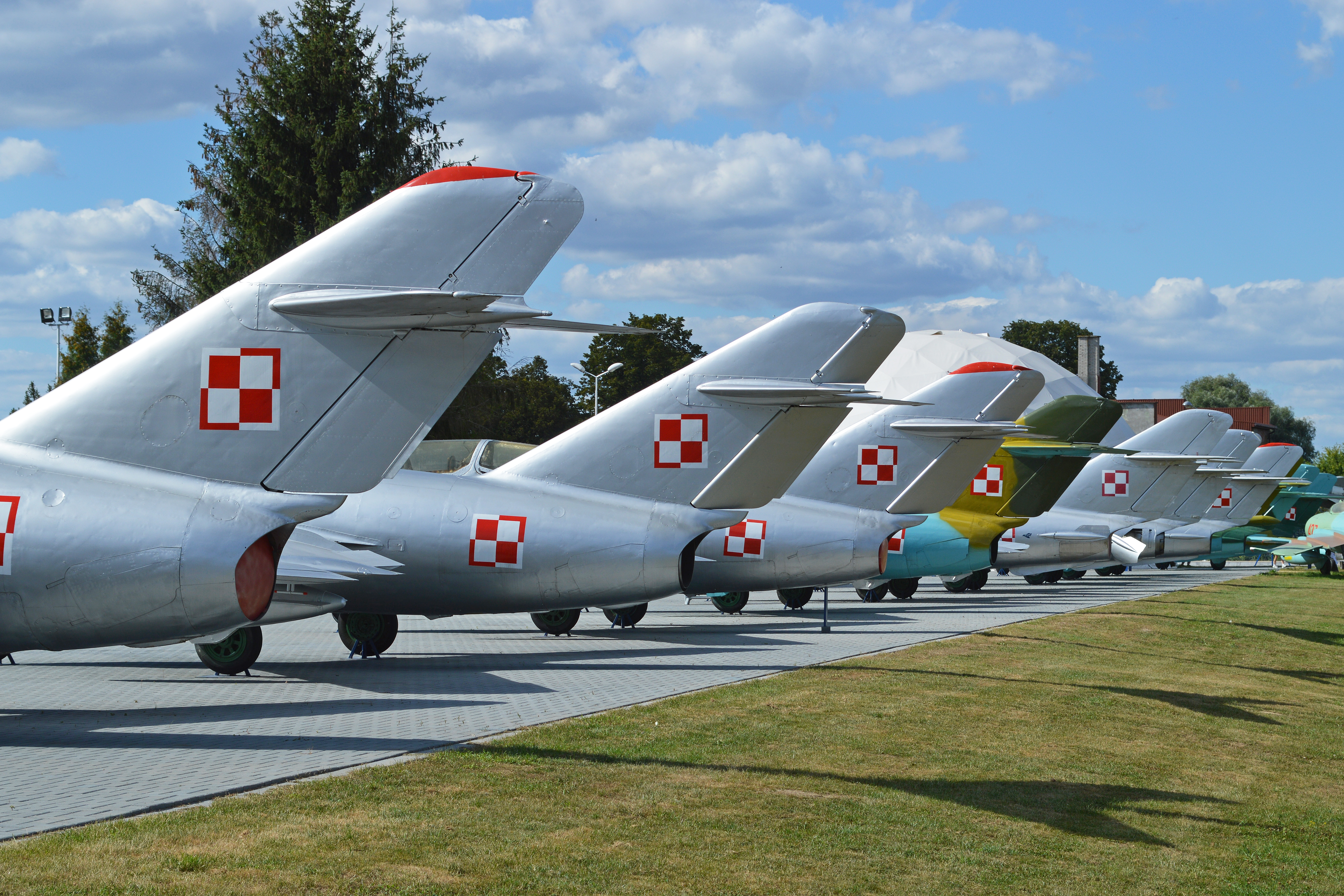 This row of nine Lim fighters (Polish built MiG-15s and 17s) is part of the outside display at the Muzeum Sit Powietrznych. Deblin, Poland. 25-8-2013